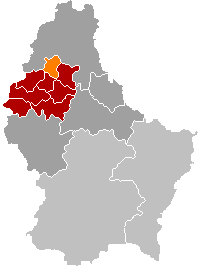 Map of Eschweiler municipality, valid up to 1 January 2015. Own edit of Kanton WiltzLocatie.png